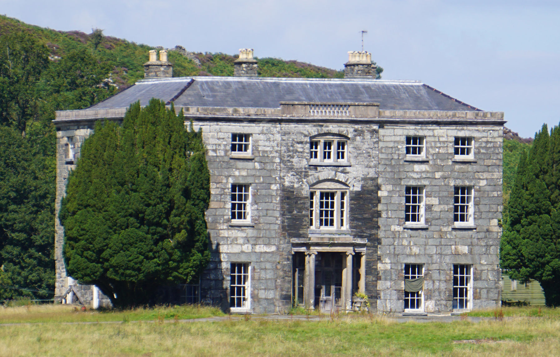 Nannau 'Hall' (August 2015)